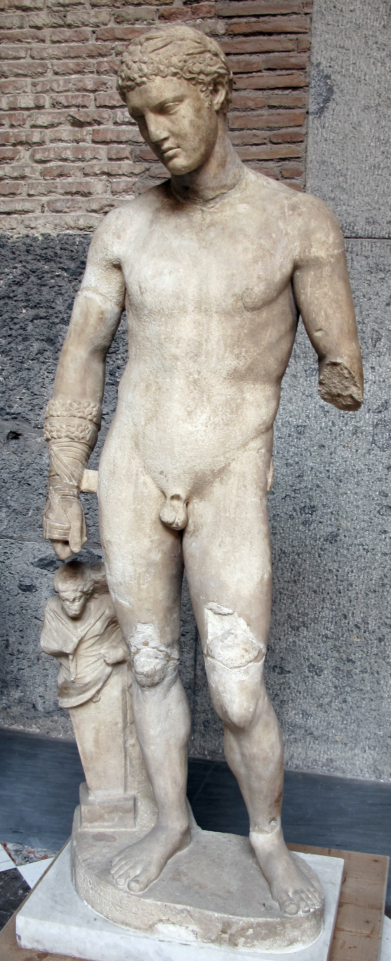 Ancient Roman statues from the Farnese Collection, now in Naples